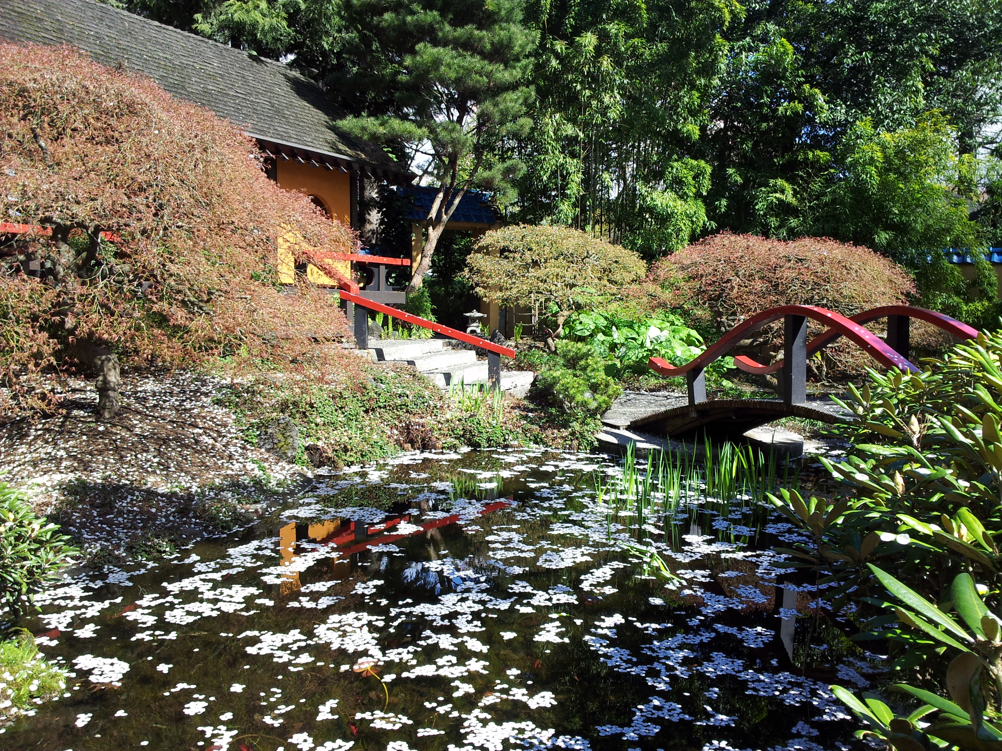 The Japanese garden at Park & Tilford Gardens, North Vancouver, BC. Spring 2013.